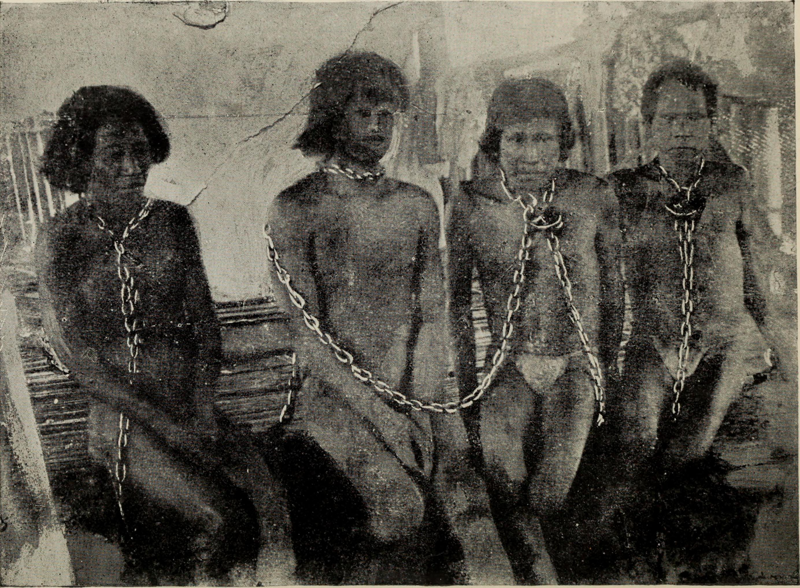 Title: The Putumayo : the devil's paradise, travels in the Peruvian Amazon Region and an account of the atrocities committed upon the Indians therein Year: 1913 (1910s) Authors: Hardenburg, W. E. (Walter Ernest), 1886-1942 Subjects: Casement, Roger, Sir, 1864-1916 Peruvian Amazon Company, Ltd Rubber Publisher: London : Fischer Unwin Text Appearing Before Image: ' Text Appearing After Image: i THE PUTUMAYO THE DEVILS PARADISE TRAVELS IN THE PERUVIAN AMAZON REGION AND AN ACCOUNT OF THE ATROCITIES COMMITTED UPON THE INDIANS THEREIN W. E. HARDENBURG EDITED AND WITH AN INTRODUCTION By C. REGINALD ENOCK, F.R.G.S. tAuthor of The tAndes and the nAmaZon fefc. TOGETHER WITH EXTRACTS FROM THE REPORT OFSIR ROGER CASEMENT CONFIRMING THE OCCURRENCES WITH 16 ILLUSTRATIONS AND A MAP T. FISHER UNWINLONDON : ADELPHI TERRACELEIPSIC: INSELSTRASSE 20 ■^\ ^nV-s^ First Published, December, 1912Second Impression, January, 1913 (All rights reserved.) PREFACE The extracts from Sir Roger Casements Report,which form part of this worl^, are made by per-mission of H.M. Stationery Office. Acknowledge-ment is also made for assistance rendered, both tothe Rev. J. H. Harris, Organising Secretary of theAnti-Slavery and Aborigines Protection Society, andto the Editor of Truth. Portions of Mr. Hardenburgsaccounts have been omitted, and some revisionsnecessarily made, but the statements of adventuresand thputumayodevilspa00hard